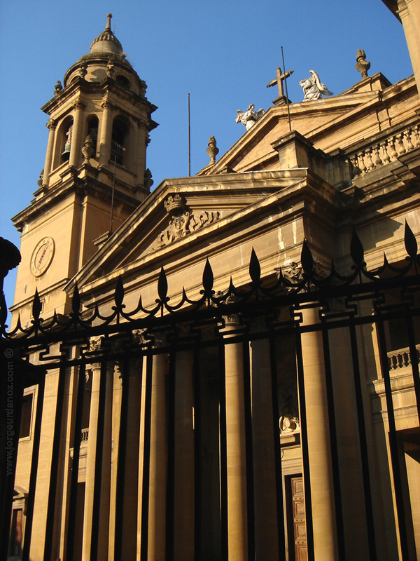 Cathedral of Pamplona, neoclasic facade